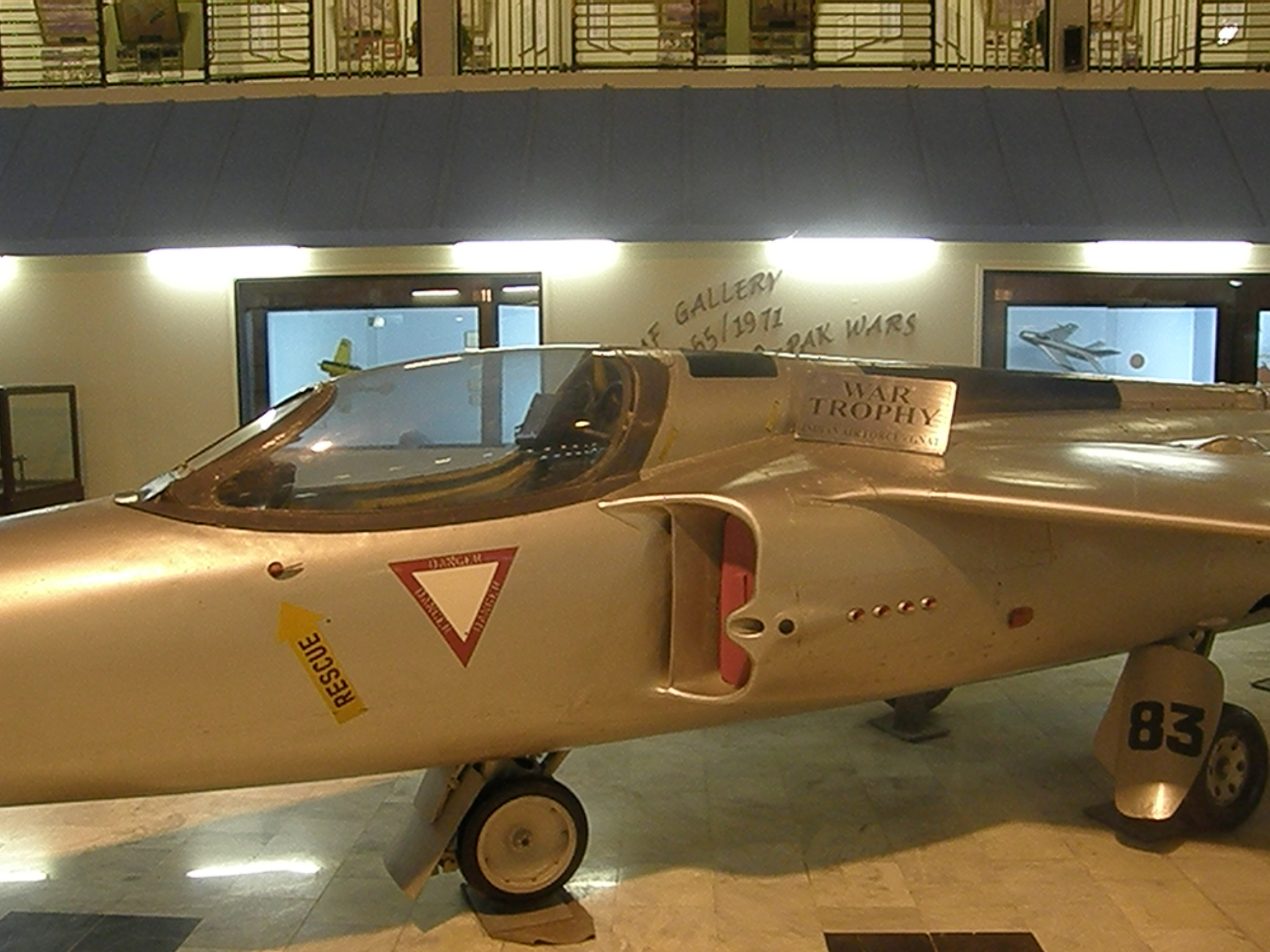 A Folland Gnat fighter of the Indian Air Force which surrendered and landed in Pakistan during the 1965 Indo-Pak War, was kept as a war trophy and put on display in the Pakistan Air Force (PAF) Museum, Karachi.